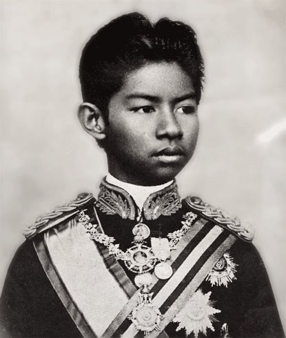 Photograph of the First Crown Prince of Siam, Maha Vajirunhis, who died at 18, never acceding to the throne.